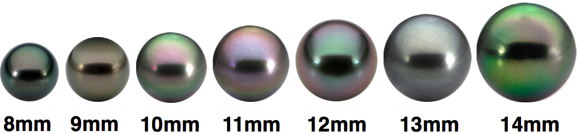 Tahiti pearl sizeTiếng Việt: Kích thước ngọc trai Tahiti